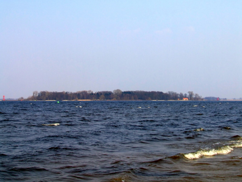 Chelminek (Island in Szczecin Lagoon), Poland